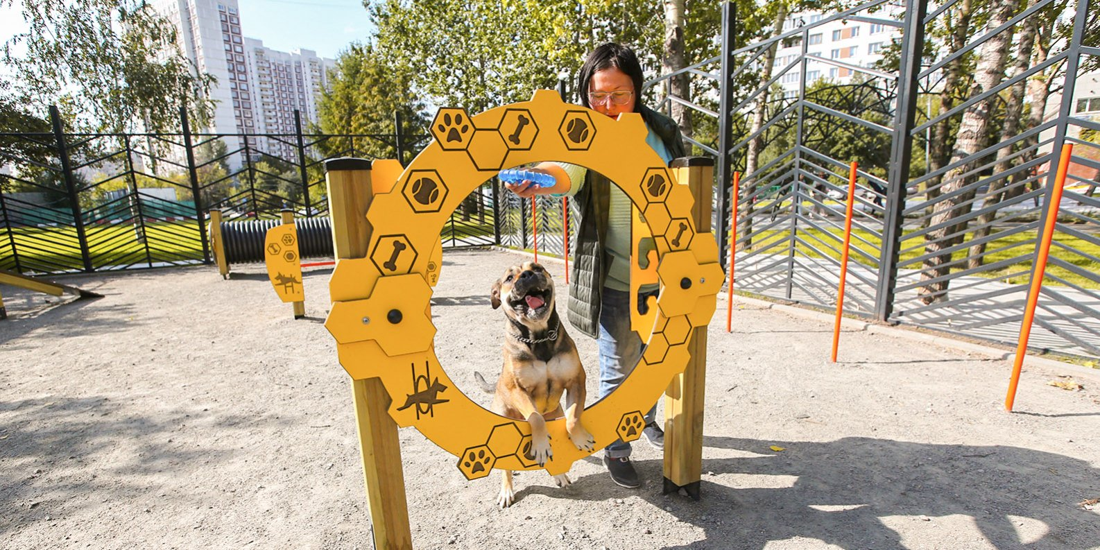 Dog's training playground in the Park of the Light in Bibirevo district (Moscow)